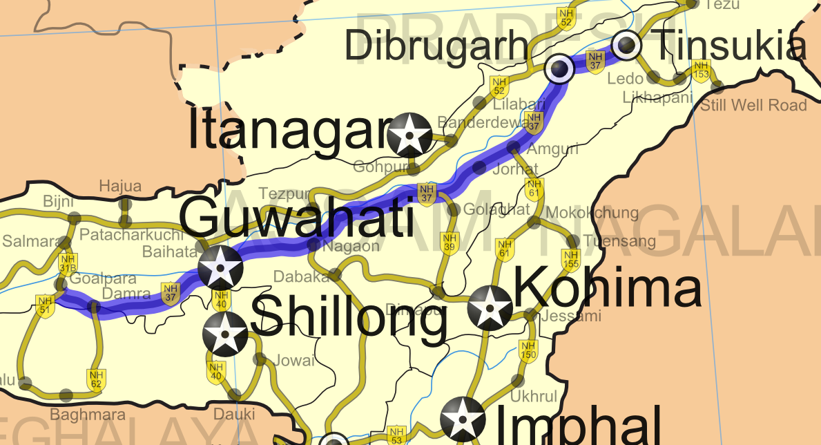 Map showing the national highway network in India. Includes NHDP projects upto phase IIIB which is due to be completed by December 2012. For actual progress of the NHDP refer to the maps below.